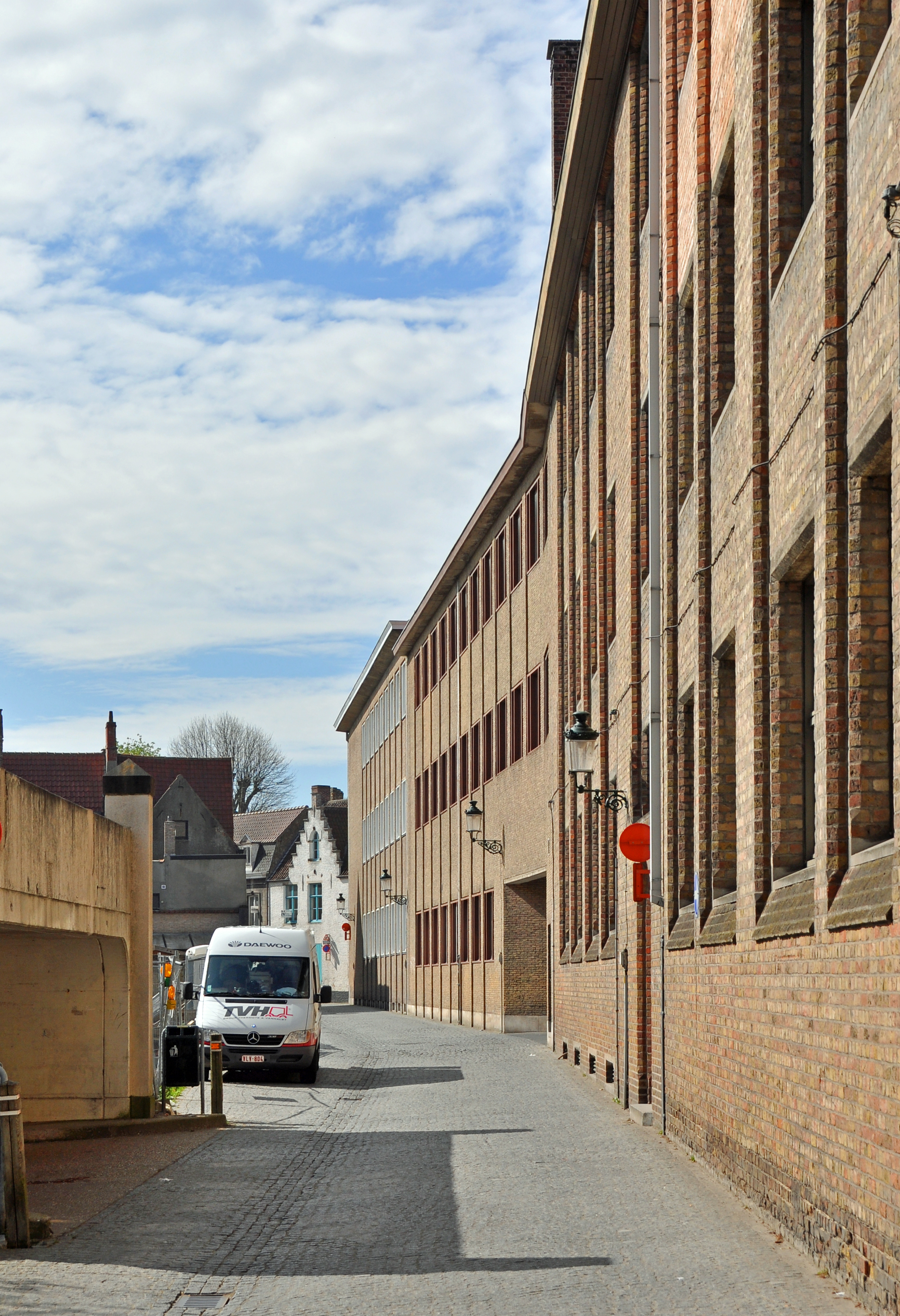 Bruges (Belgium): Elisabeth Zorghestraat